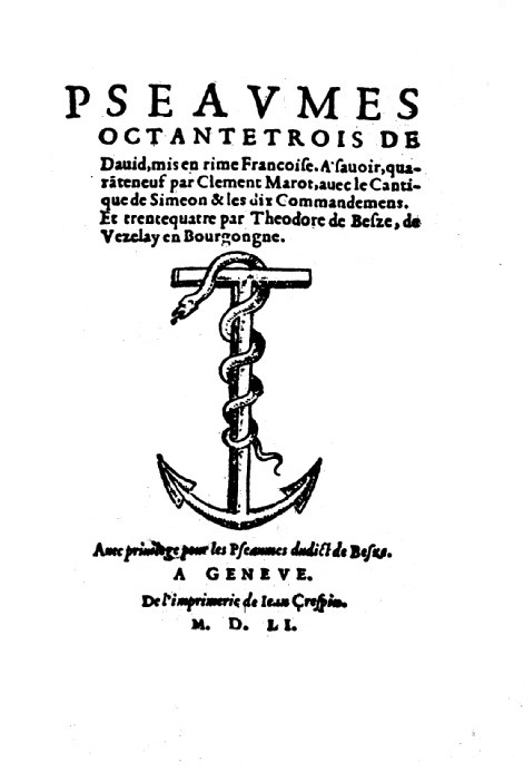 Title page of the 1551 edition of the Octante trois Pseaumes (Geneva : Jean Crespin, 1551).